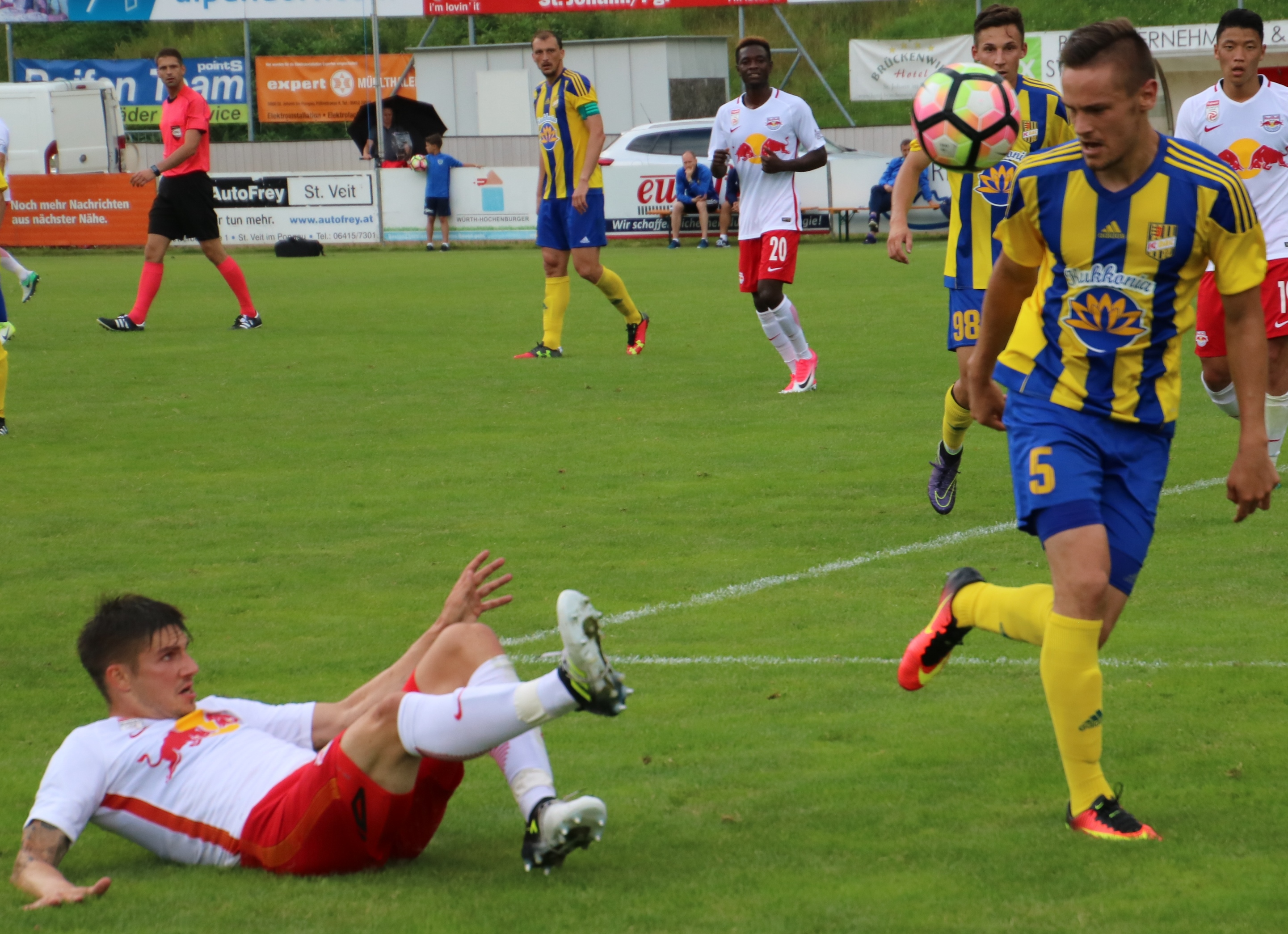 Pre season match